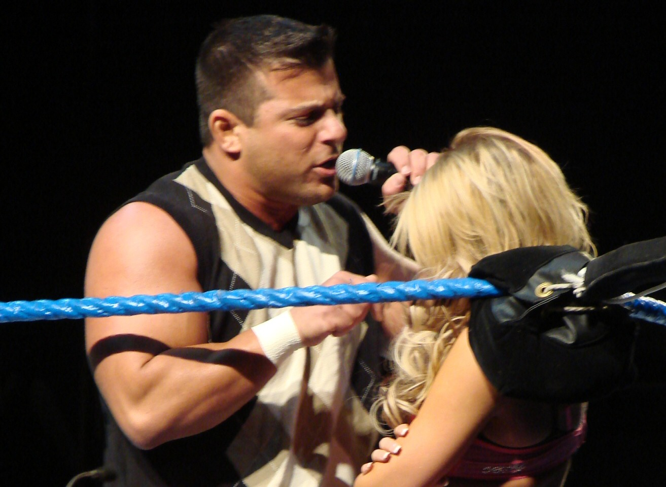 Matt Striker and Kelly Kelly at an ECW live event. Assembly Hall.